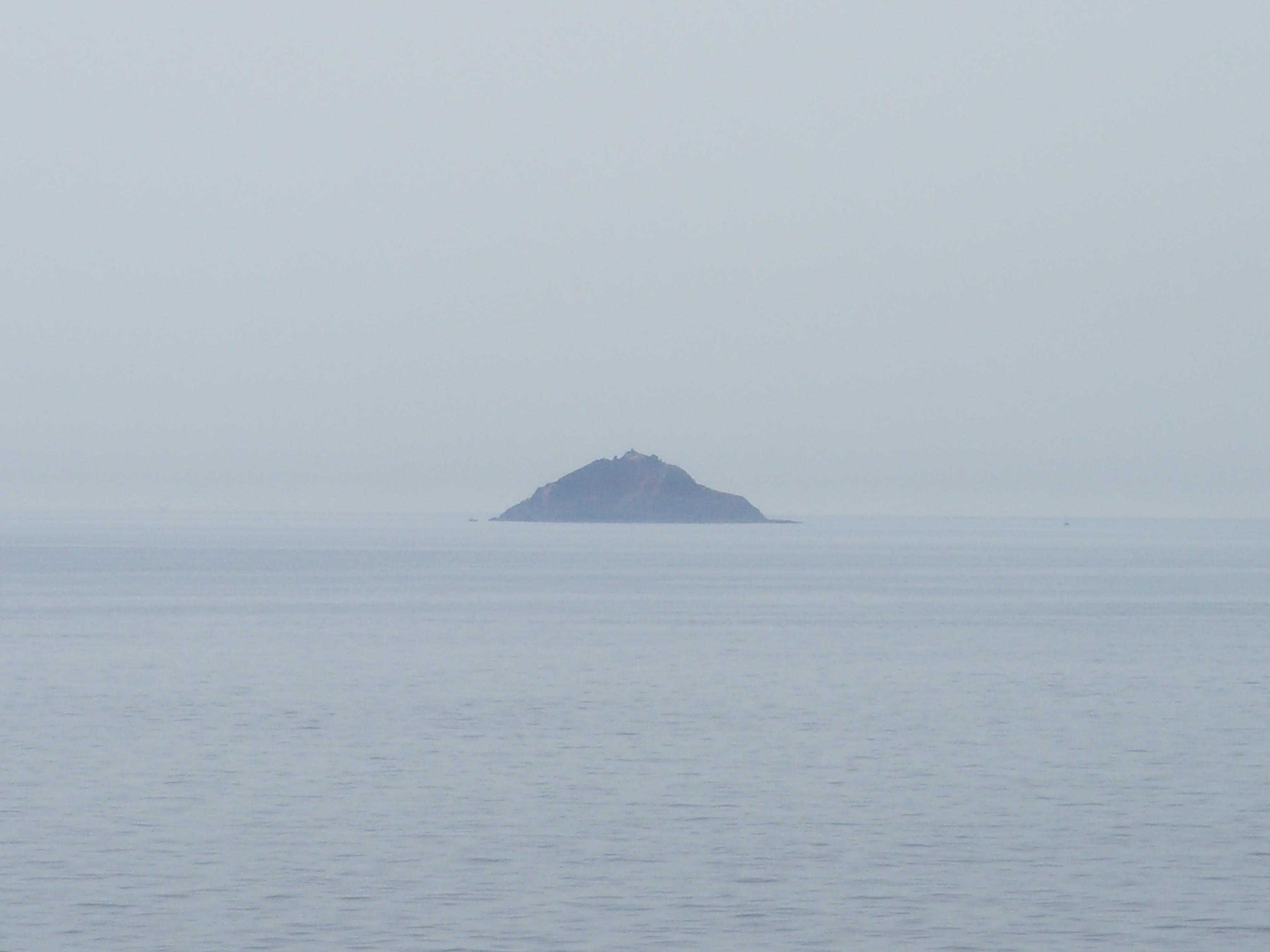 Sivriada as seen from Burgazada